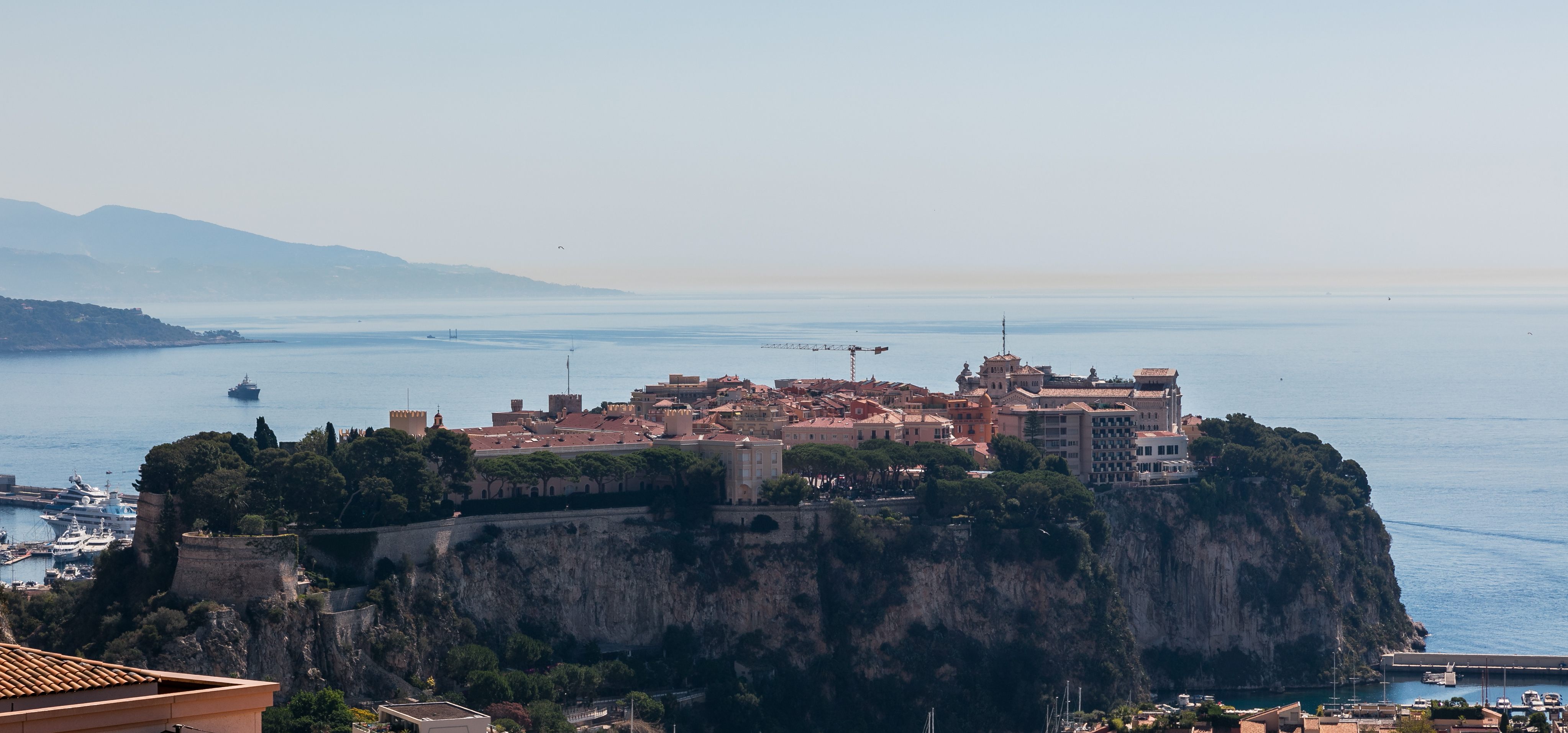 View of the Historic Center of Monaco